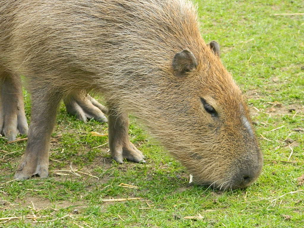 Munching away at the grass, a Capybara in Shepreth Wildlife Park